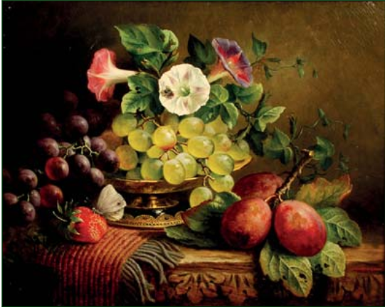 Written in pencil on the wood at the back of the upper stretcher are the handwritten words Grapes Convolvuli and Plums Constitution Crescent Gravesend Kent Charles Stuart. It was displayed at the Royal Scottish Academy Exhibition in 1868, titled Grapes, convolvuli and plums No 594